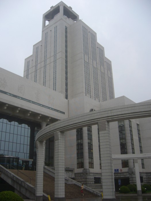 Shanghai Library